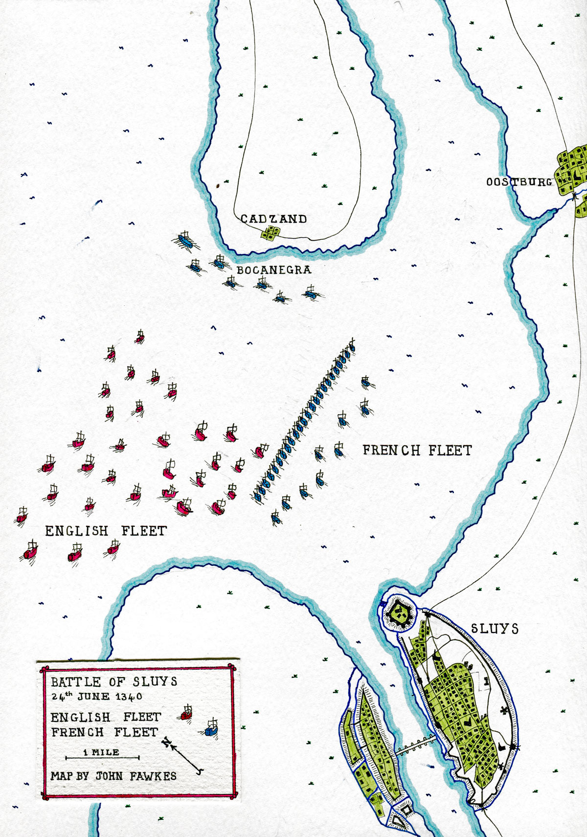 Battle of Sluys 24th June 1340: map by John Fawkes